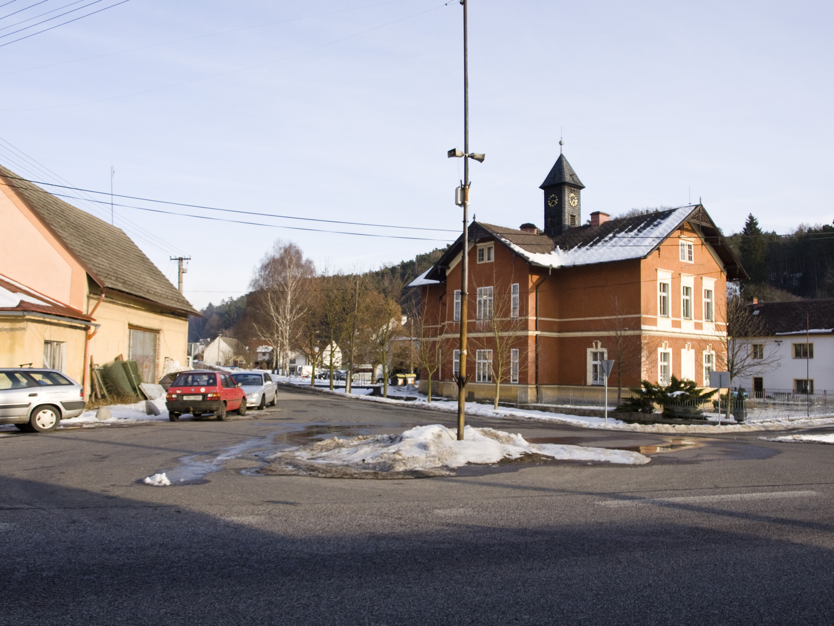 Crossroad, Želízy, Central Bohemian Region Region